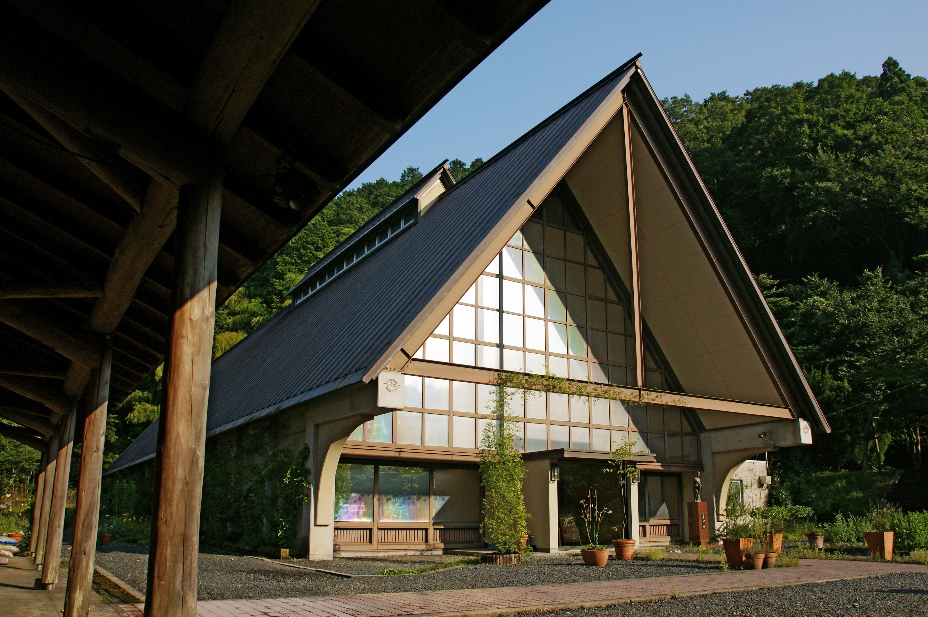 Misasa Museum in Misasa, Tottori prefecture, Japan.